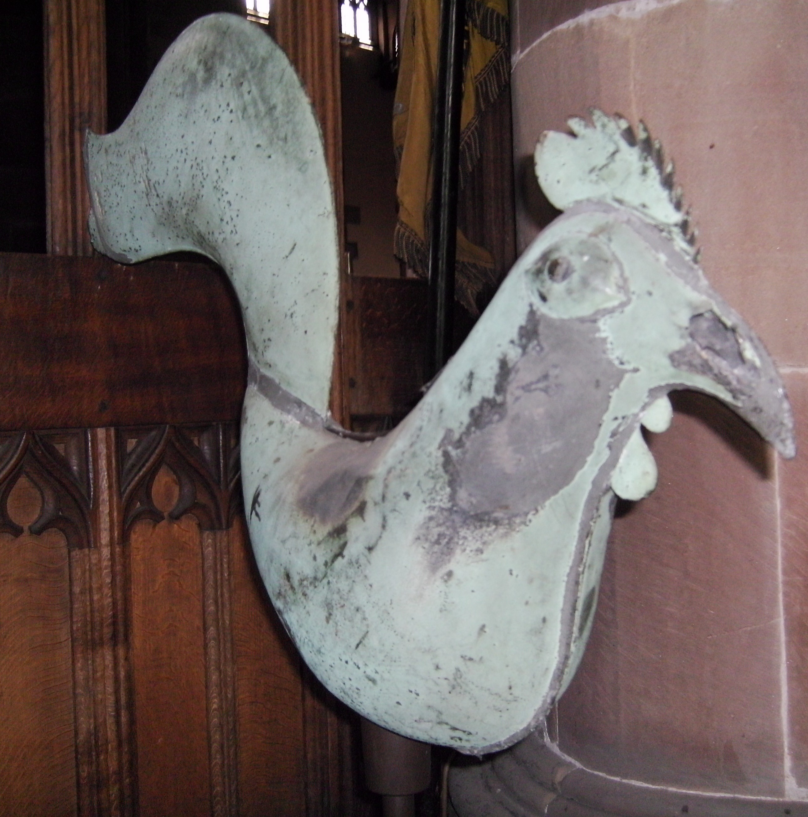 Weathercock, formerly on church tower, dated 1656. St. Peter's Collegiate church, Wolverhampton, West Midlands, England. Parish of Central Wolverhampton WV1 1TS.